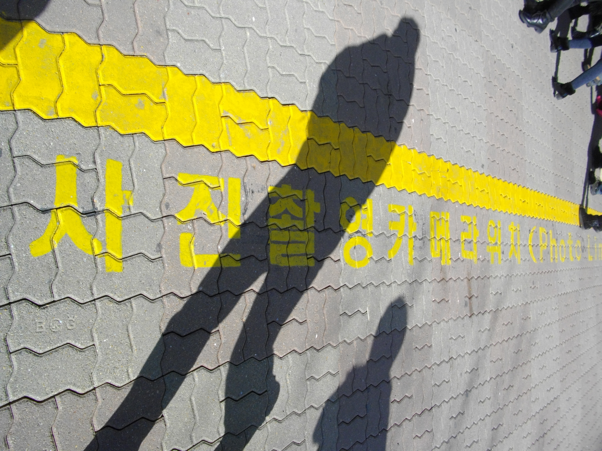 Dora Observatory Photo Line